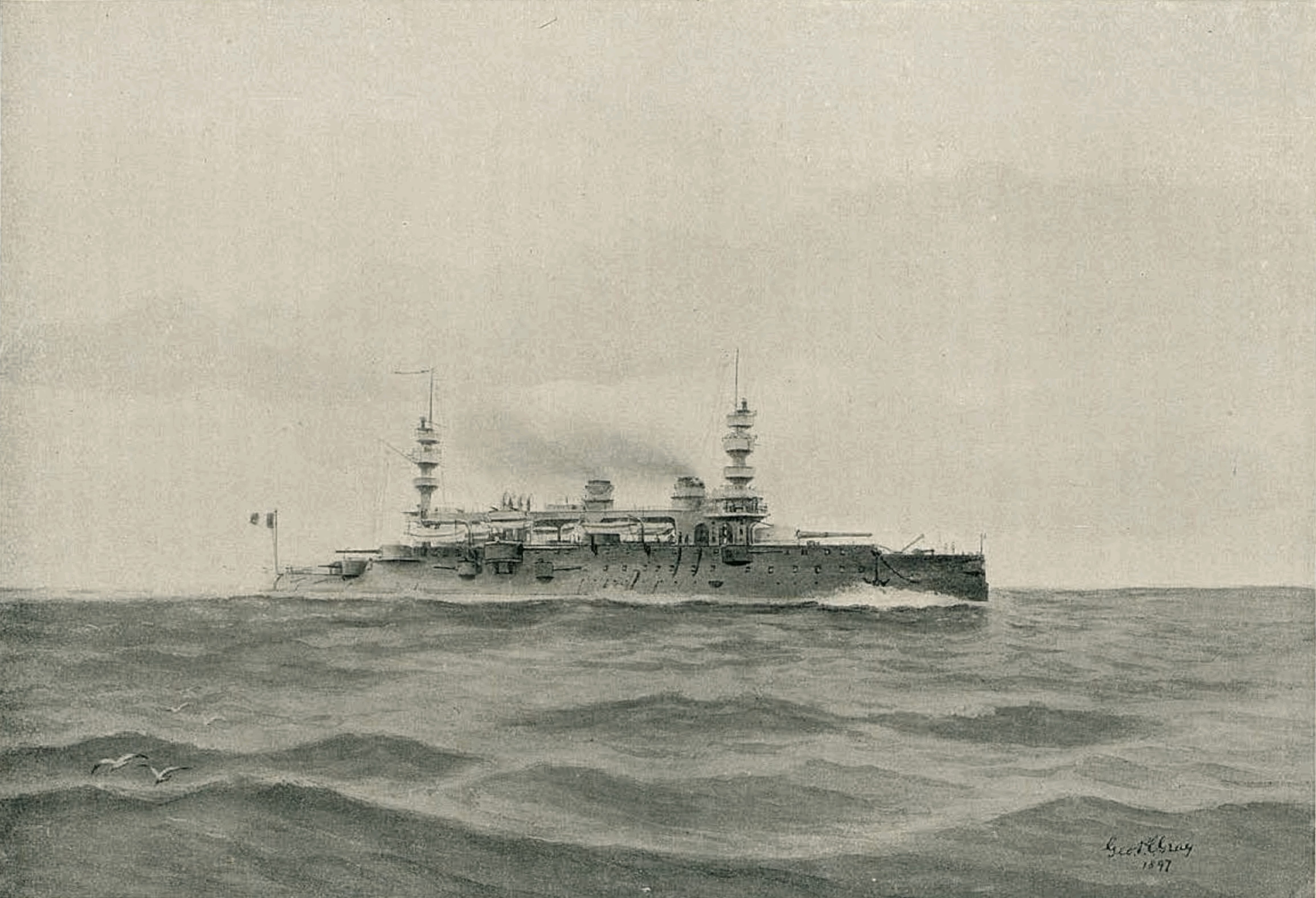 Illustration of the French battleship Charles Martel